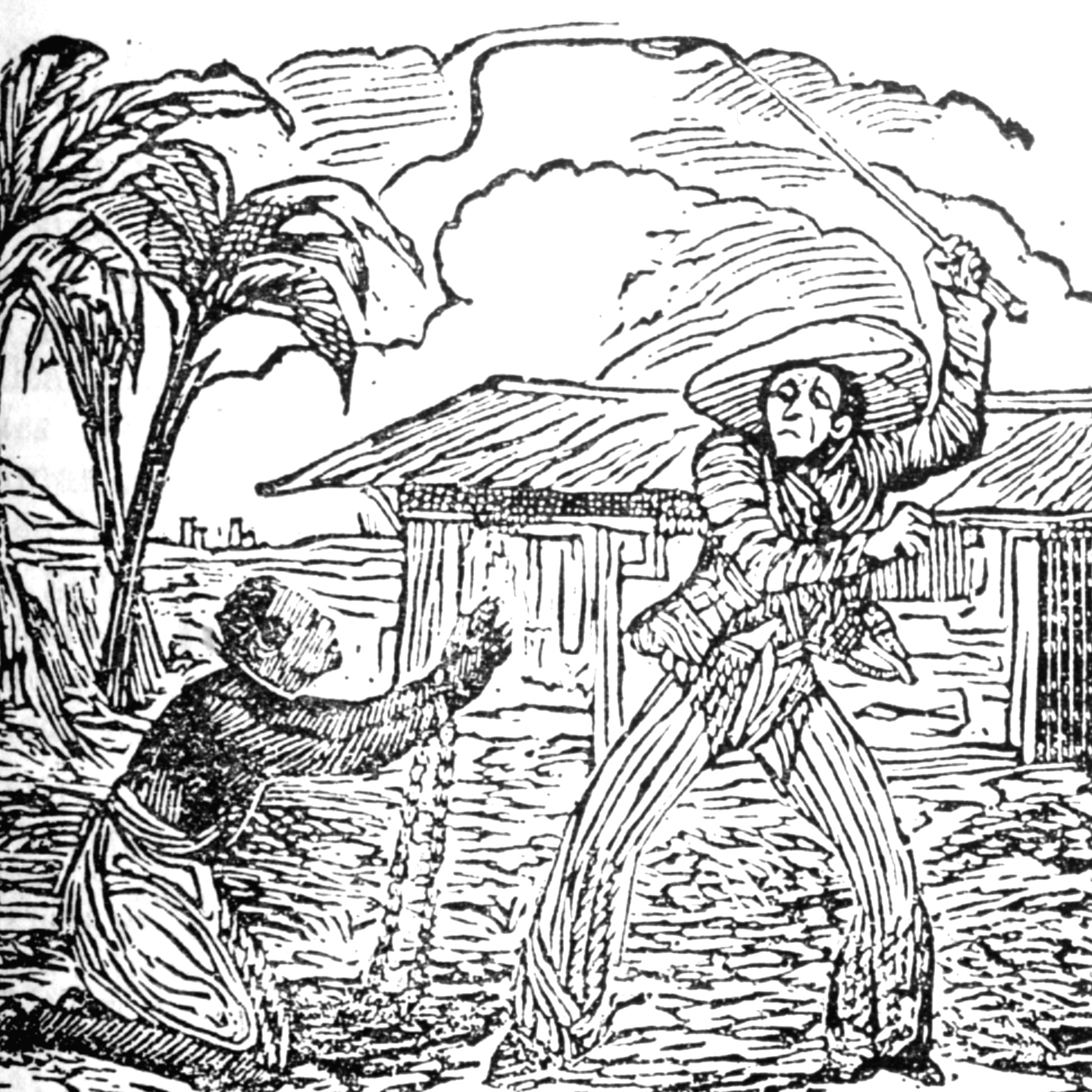 Pedeapsa robilor ("The Punishment of Slaves"). Drawing of a Western slave master punishing his African slave, originally published in the Romanian-language Transylvanian magazine Foaia Duminecii. Reversed derivative of an engraving by Cruikshank.